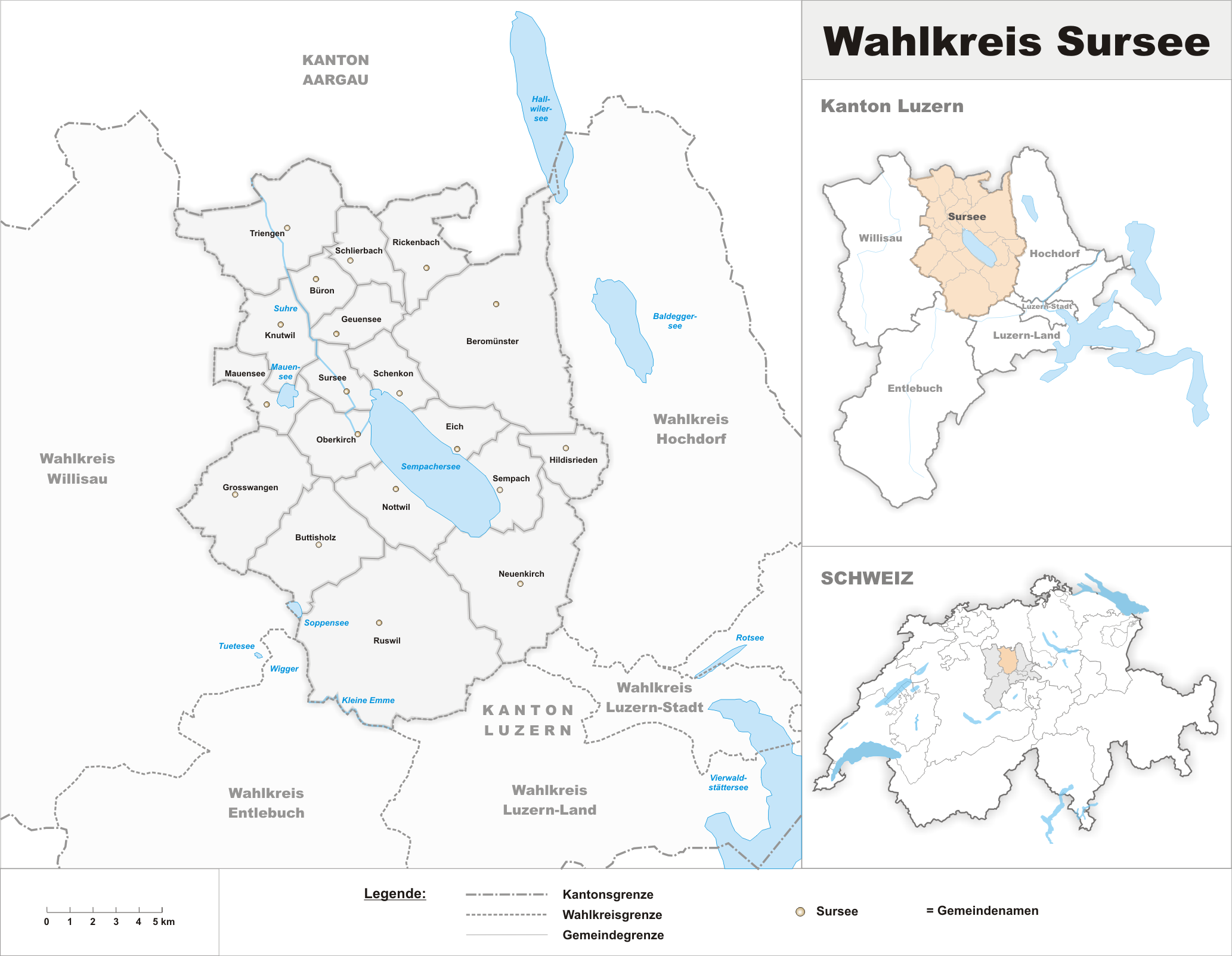 Municipalities in the district of Sursee Map drawn by Tschubby